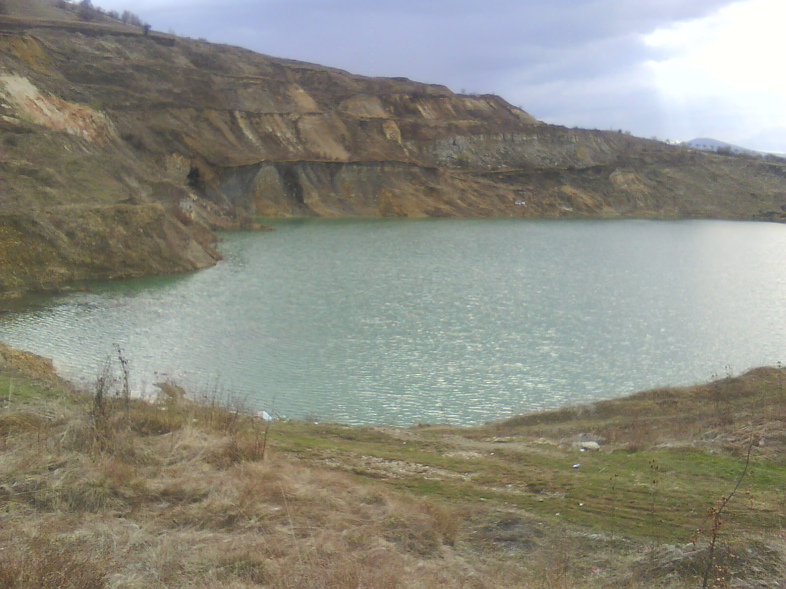 Lake in Grahovčići